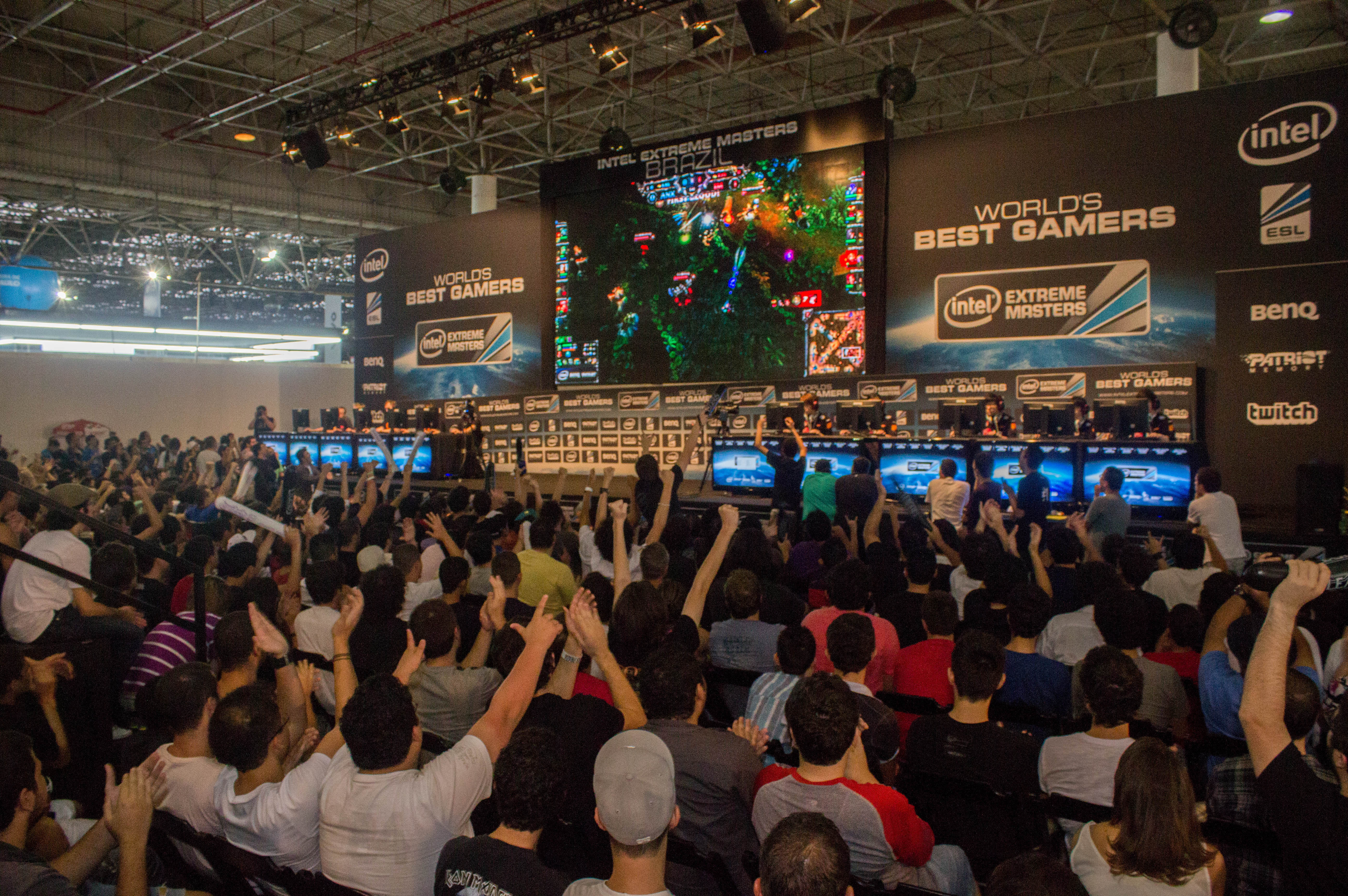 Final Intel Extreme Masters World Best Gamers League Of Legends - Campus Party Brasil - 02/02/2013 - Foto: Camila Cunha/indicefoto